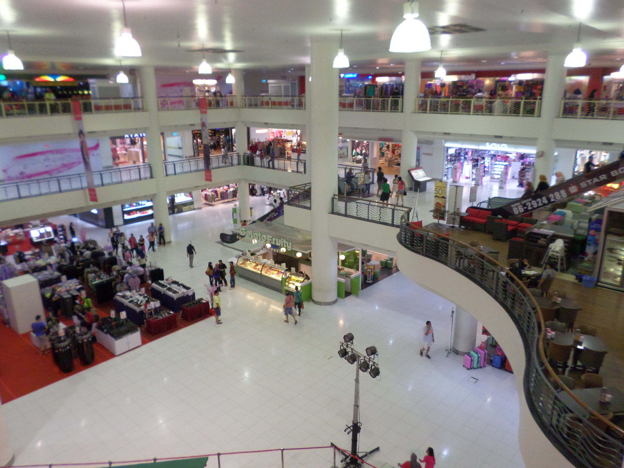 Mahkota Parade, Melaka City, Central Melaka, Melaka, MalaysiaBahasa Melayu: Mahkota Parade, Bandaraya Melaka, Melaka Tengah, Melaka, Malaysia